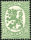 Finnish lion stamp, 1919. Design: Eliel Saarinen